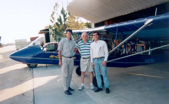 From Left to Right, Business partners Phil Lockwood, Antonio Leza and Aircam Engineer Pedro Gonzalez pose in front of the Aircam